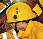 Pacific Helmet F3D Hong Kong Fire Service Department Fireman Special Rescue Squad Tsim Sha Tsui Fire Station中文（香港）: Pacific 頭盔 F3D 香港消防處 消防員 特種救援隊 尖沙咀消防局